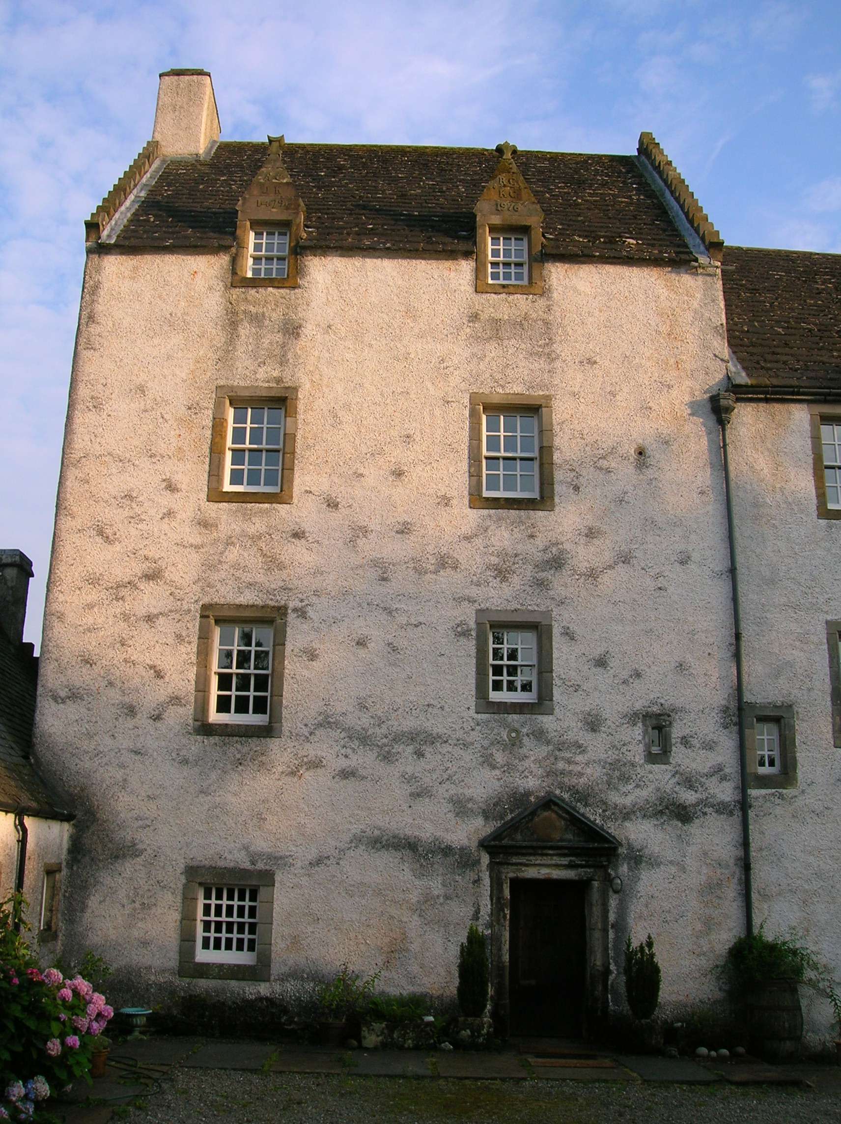 The main entrance, Aiket Castle, East Ayrshire, Scotland.